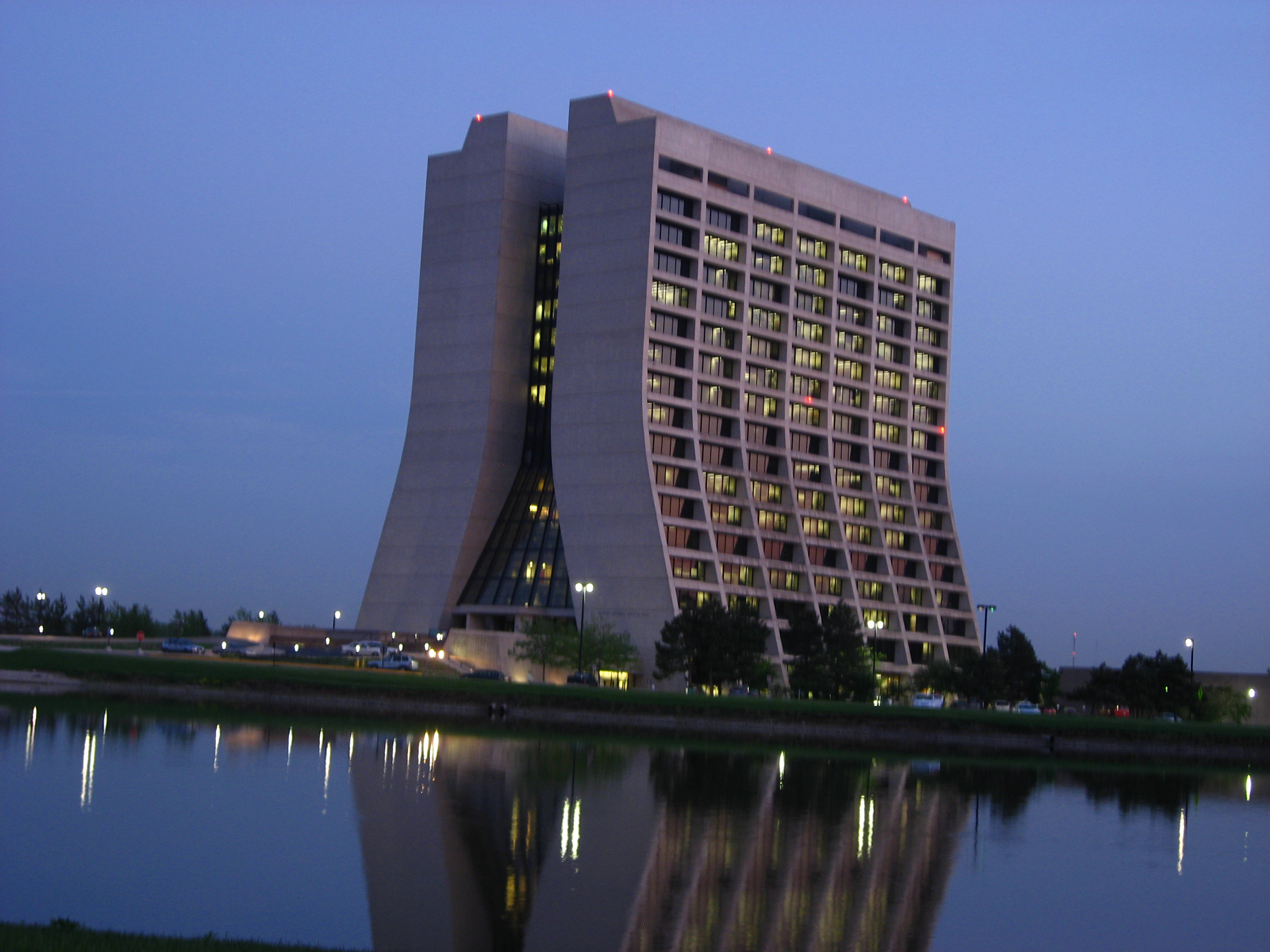 The "High Rise" at Fermilab